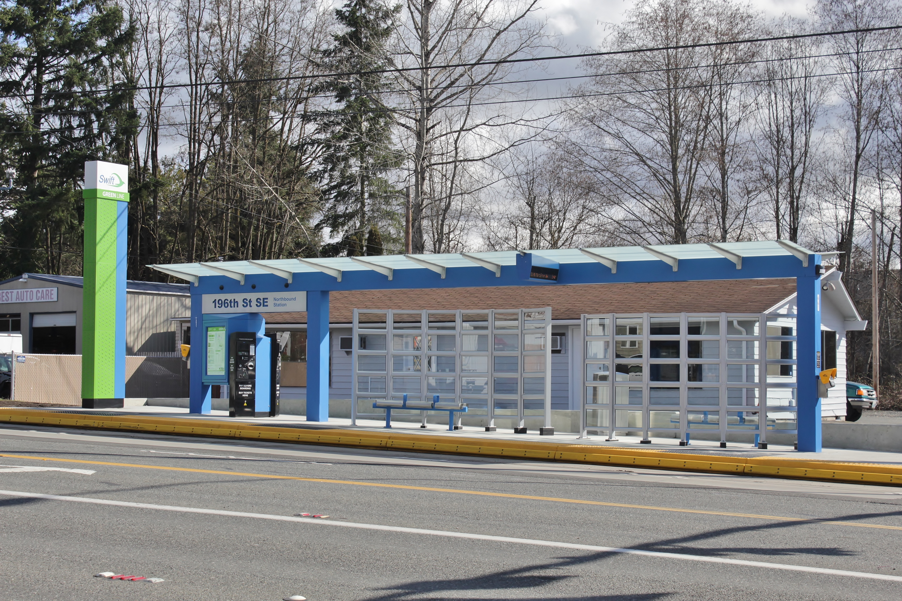 A bus rapid transit station on the Swift Green Line in Bothell, Washington. It features a raised platform, seating, windscreens, ticket vending machines, ORCA card readers, maps, and signage.